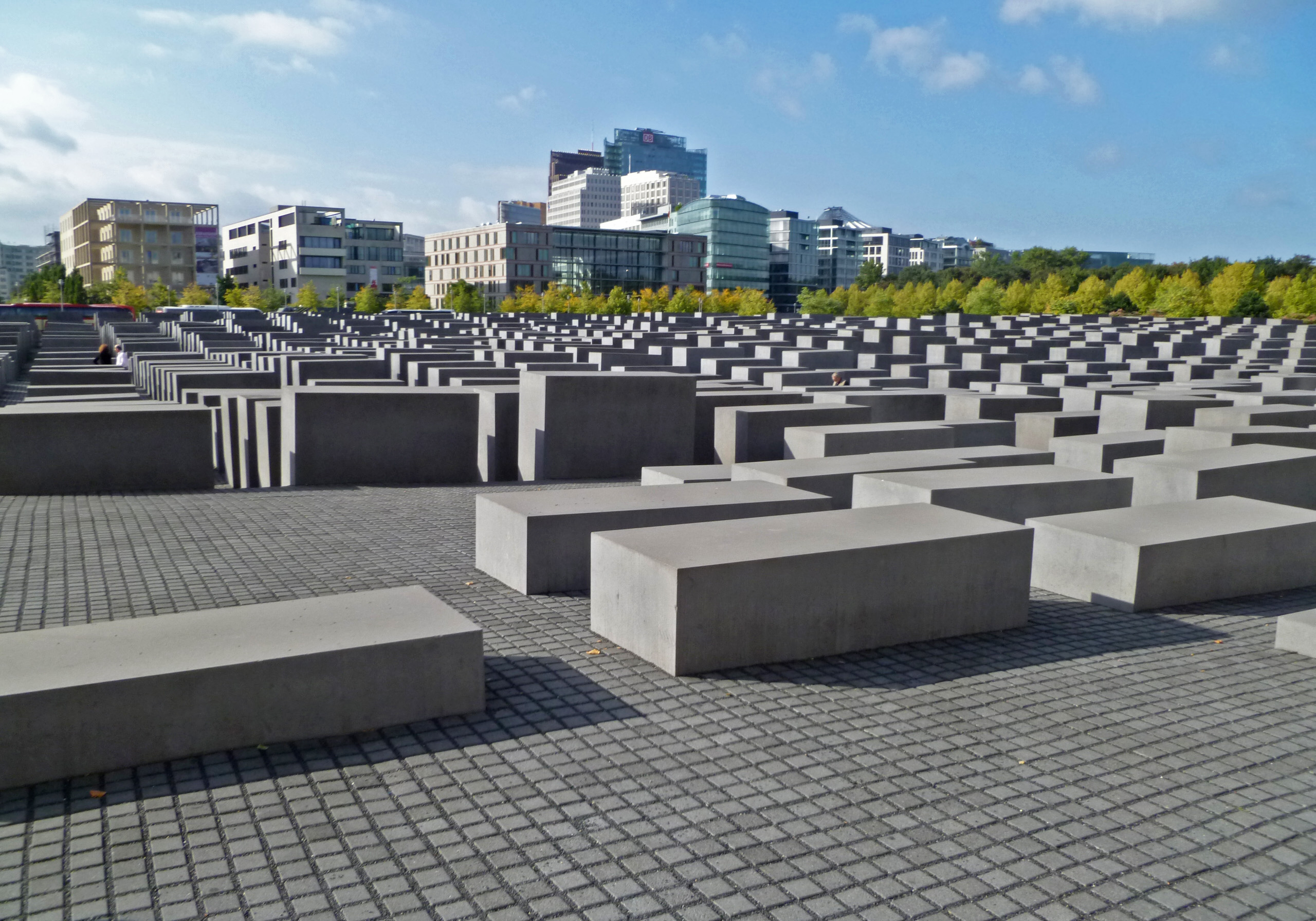 Memorial to the Murdered Jews of Europe, Berlin, Germany